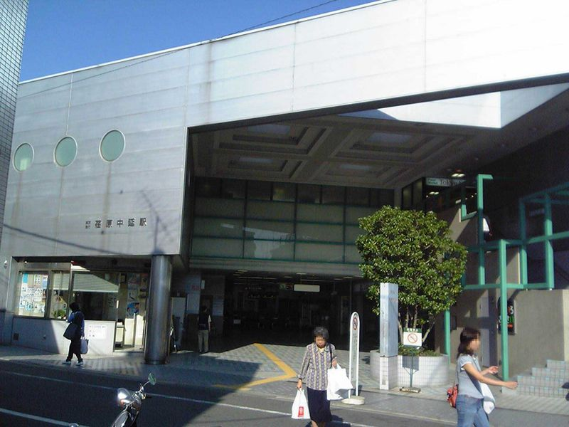 An entrance of Ebara-Nakanobu Station.